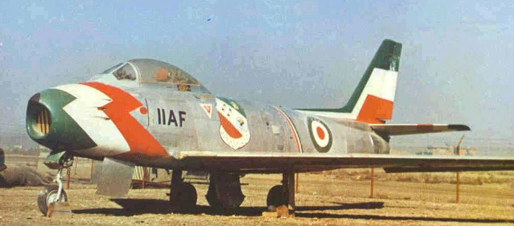 F-86_Sabre belonging Unit Golden_Crown of Imperial_Iranian_Air_Force